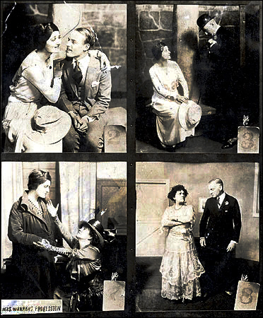 Photographs from the 1918 production of George Bernard Shaw's production of "Mrs. Warren's Profession," directed by and starring Mary Shaw (pictured in the two lower frames).